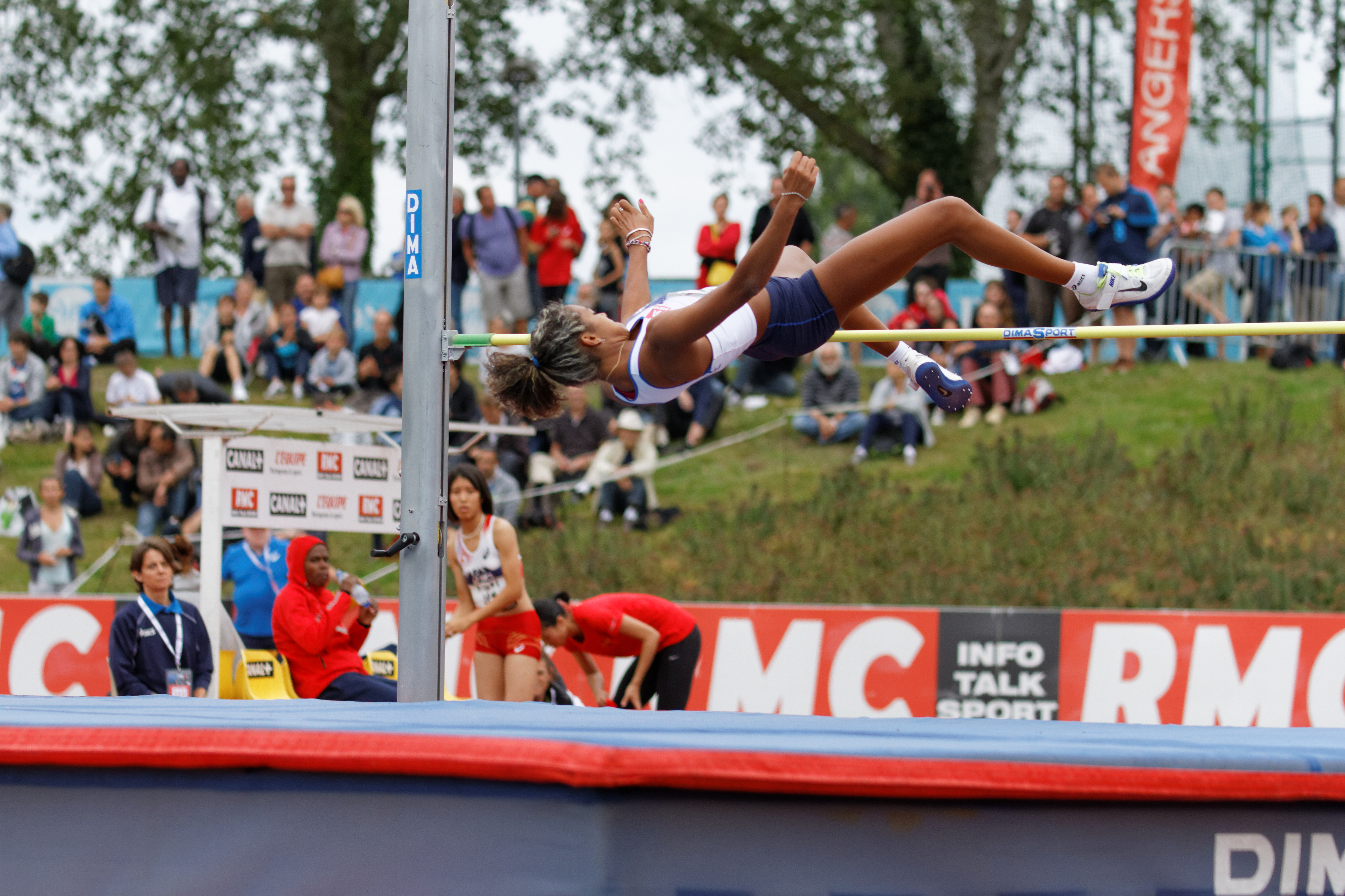 DécaNation 2014. Laura Salin-Eyike.